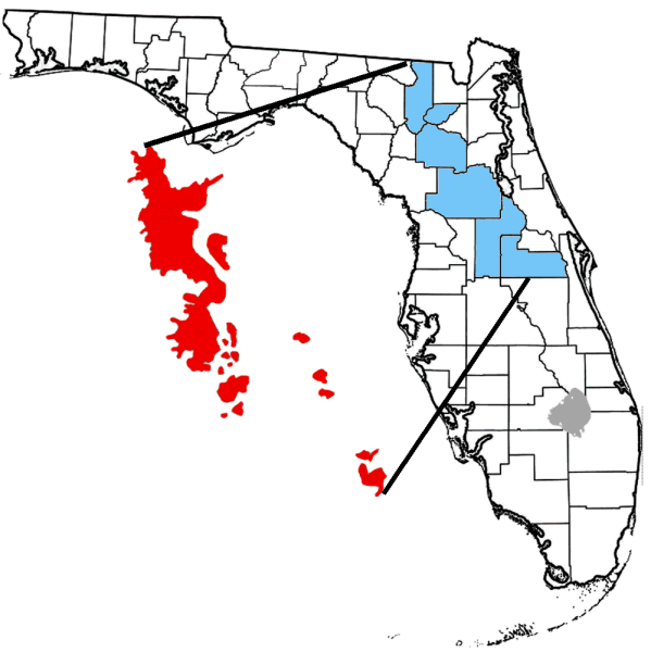 Map displaying Coosawhatchie Formation of Florida